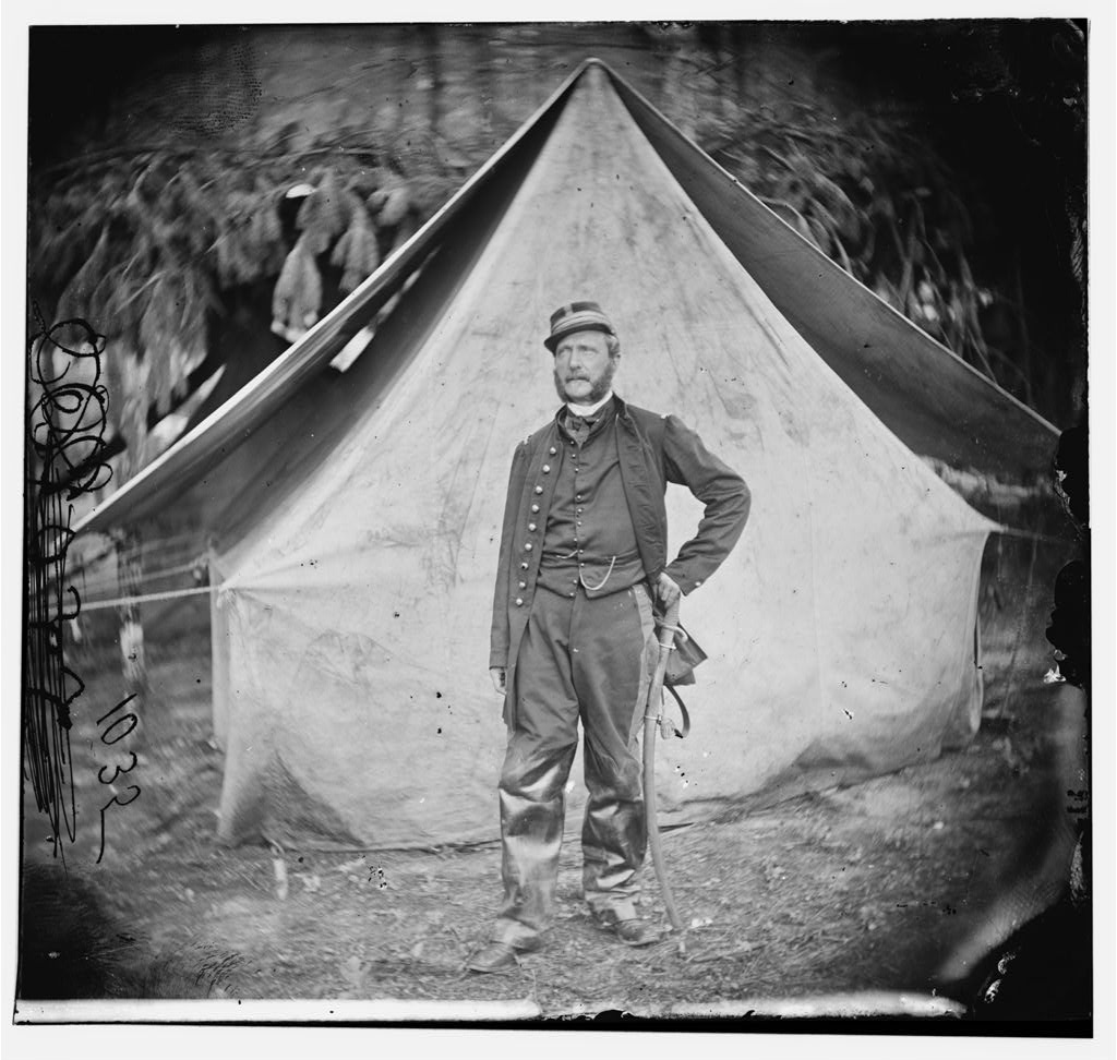 Col. Ernest M.P. Von Vegesack, 20th New York Infantry "United Turner Regiment" (Captain in Swedish army)